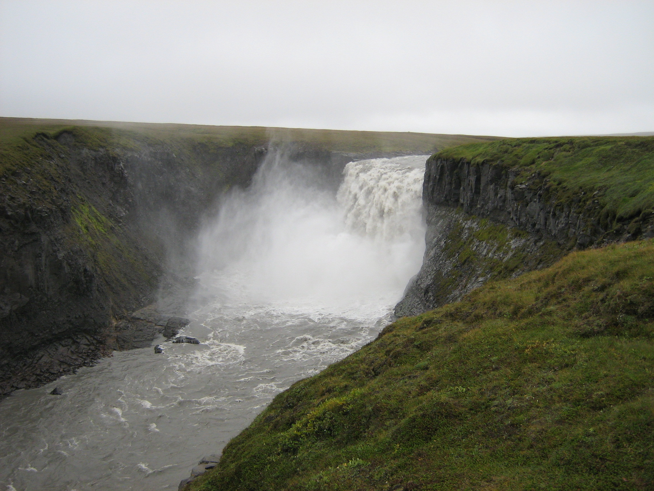 Magicfalls). It is one of the beautiful waterfalls that go under water due to the Kárahnjúkadam which is being built in Iceland (as of 2006).